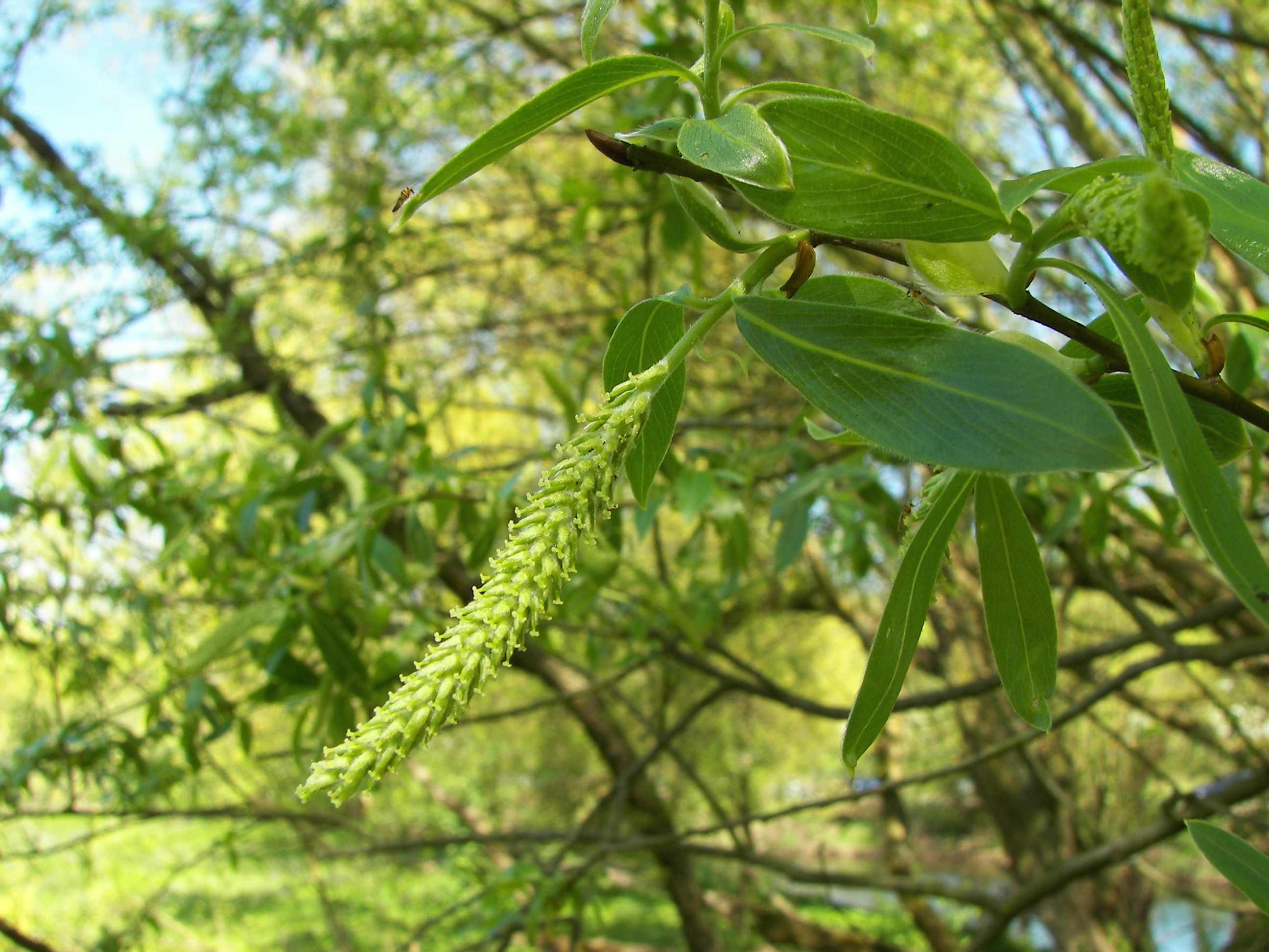 White Willow (Salix alba), female catkins, Location: Marburg, Hesse, Germany